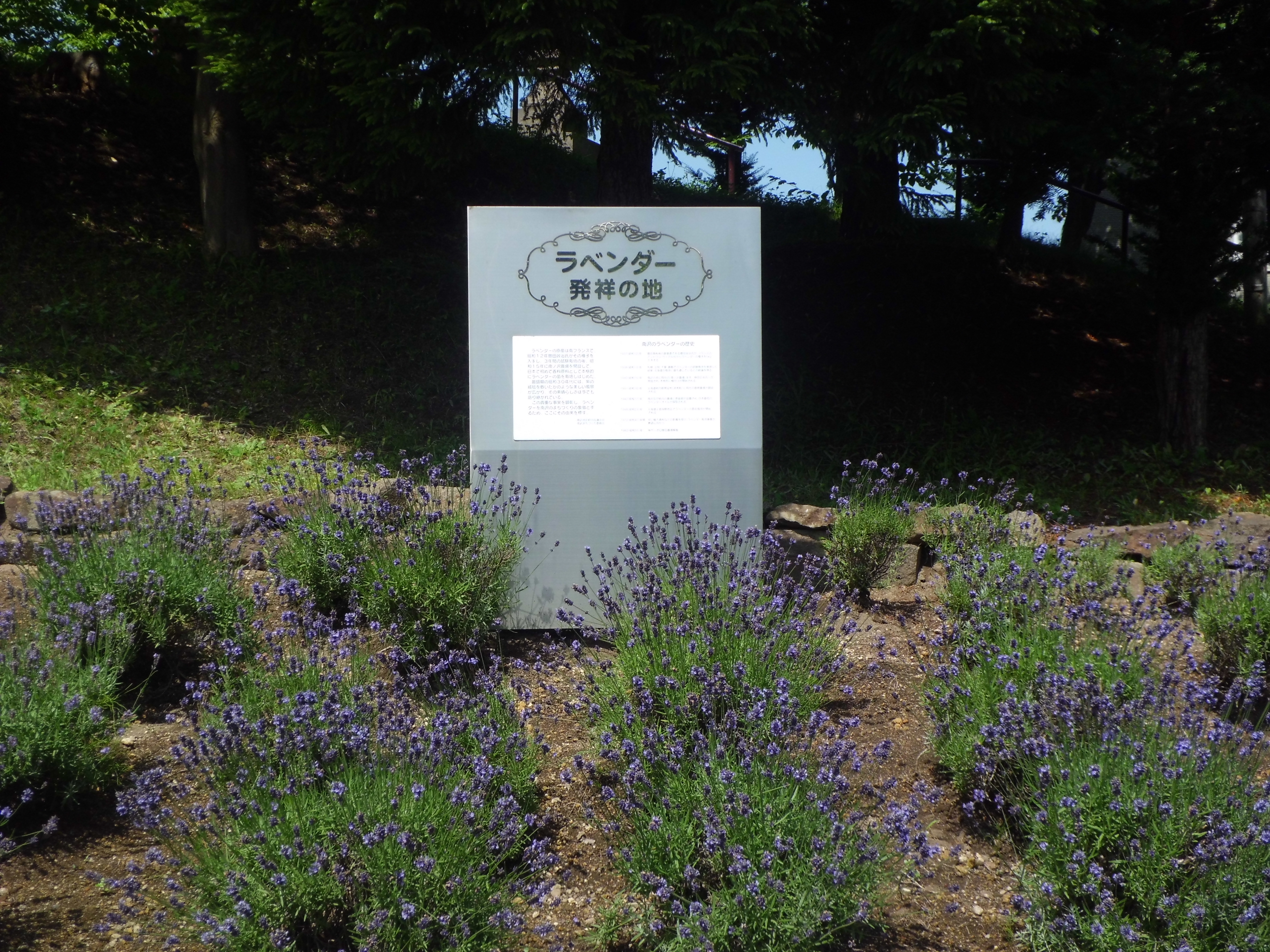 Birthplace of Japanese Lavenders